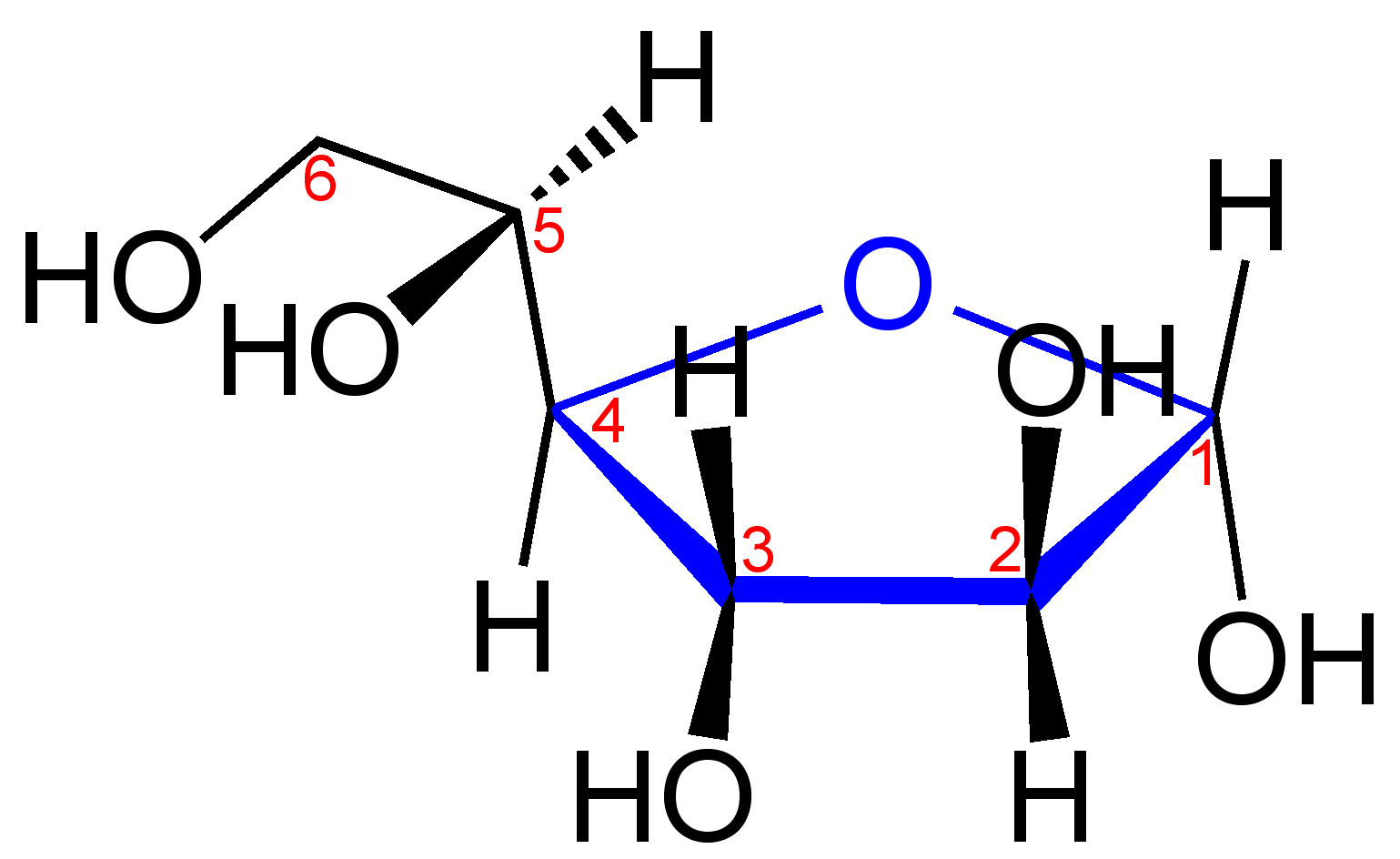 D-Altrose(alpha-FURANOSE)